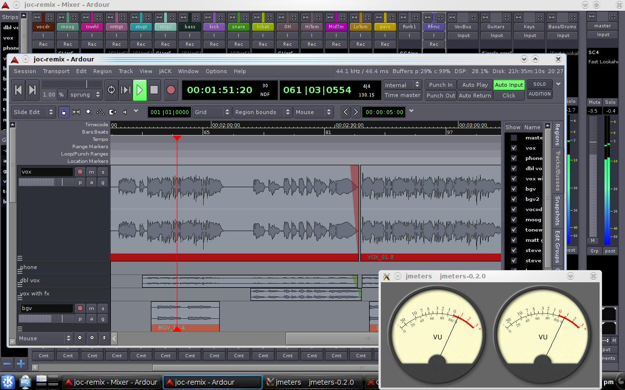 screenshot of Ardour (with jmeters) running under Arch Linux